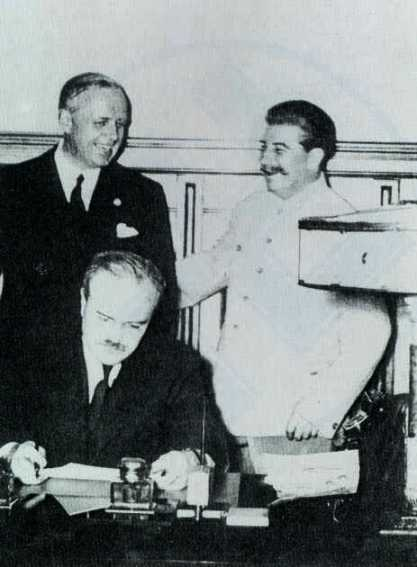 Hitler's emissary. German ambassador von Ribbentrop (left) and Soviet dictator Stalin laugh as Molotov signs the German–Soviet Boundary and Friendship Treaty on September 28, 1939.